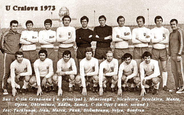 Universitatea Craiova squad 1973-1974 Divizia A season.